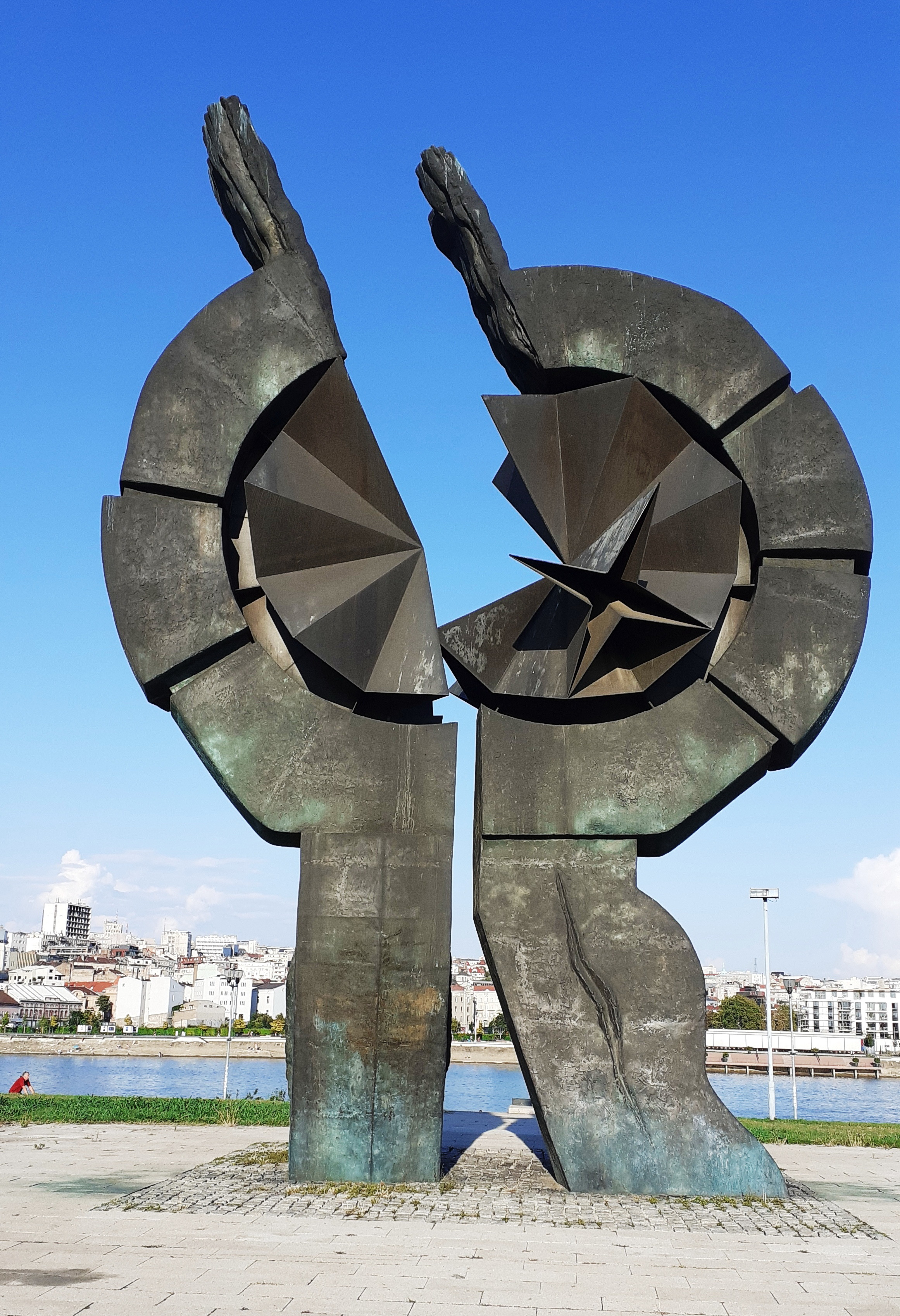 Monument Staro Sajmište - remembrance of the victims of the genocide 1941-1944, on the left bank of the Sava, in the City Municipality of New Belgrade, in Belgrade